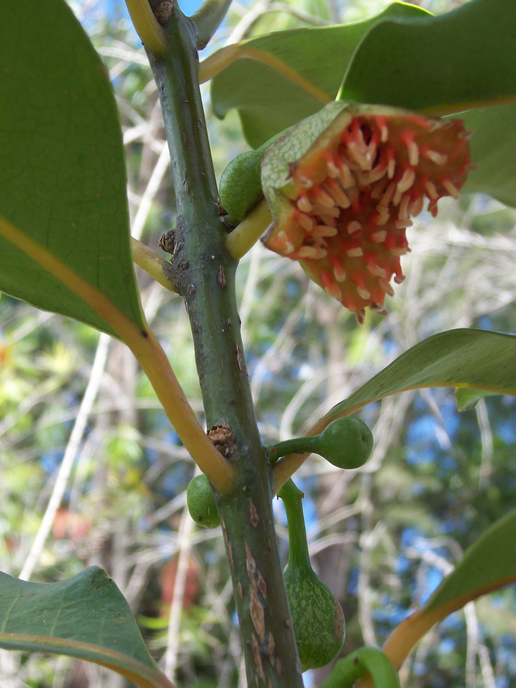 male inflorescences of Tambourissa elliptica (Monimiaceae), a tree species endemic to Réunion island (photo taken in a nursery)